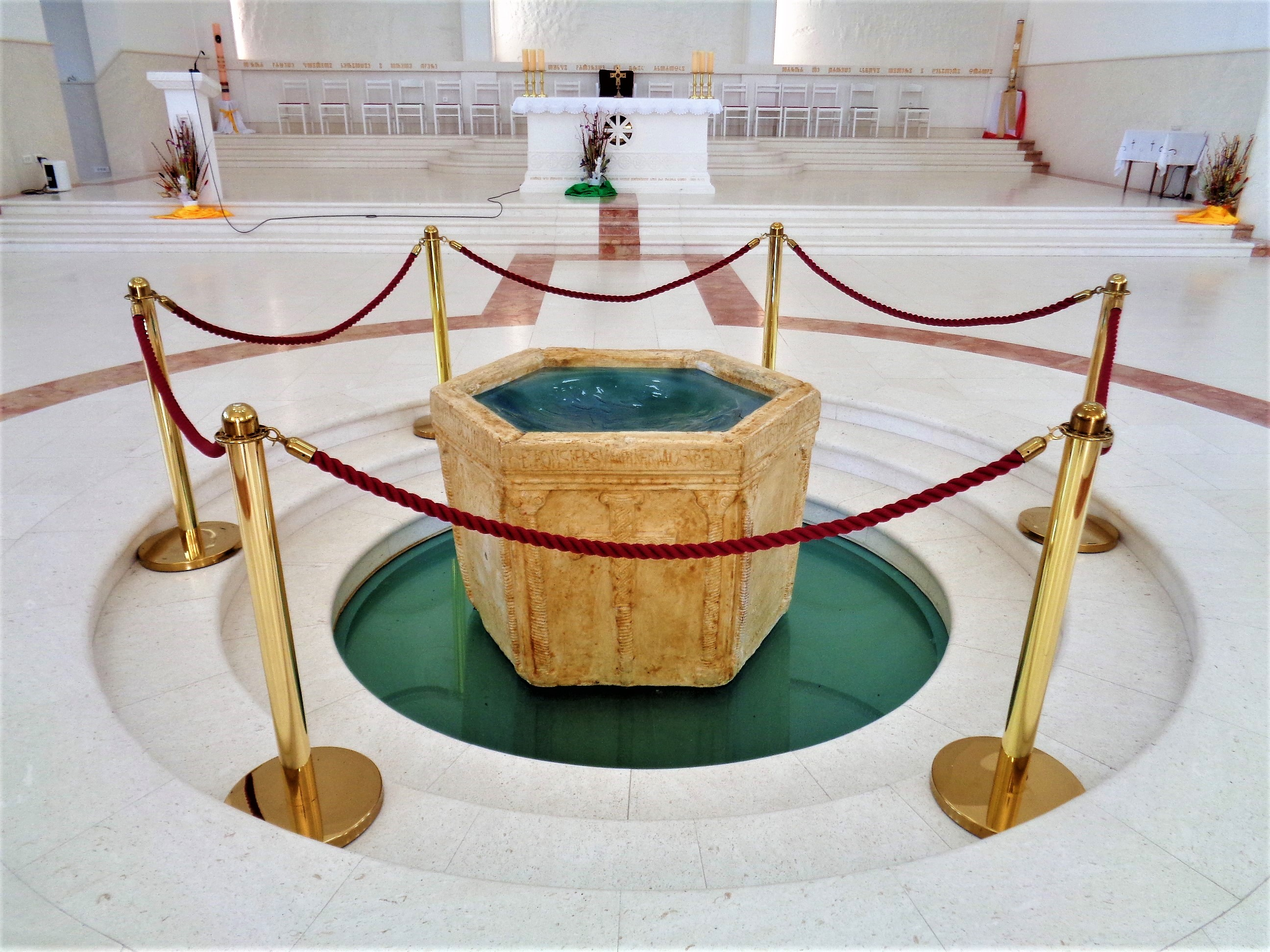 Church of Croatian Martyrs in Udbina, Lika-Senj County, Croatia - interior with replica of the baptismal font of Duke Višeslav of Croatia (8th century)